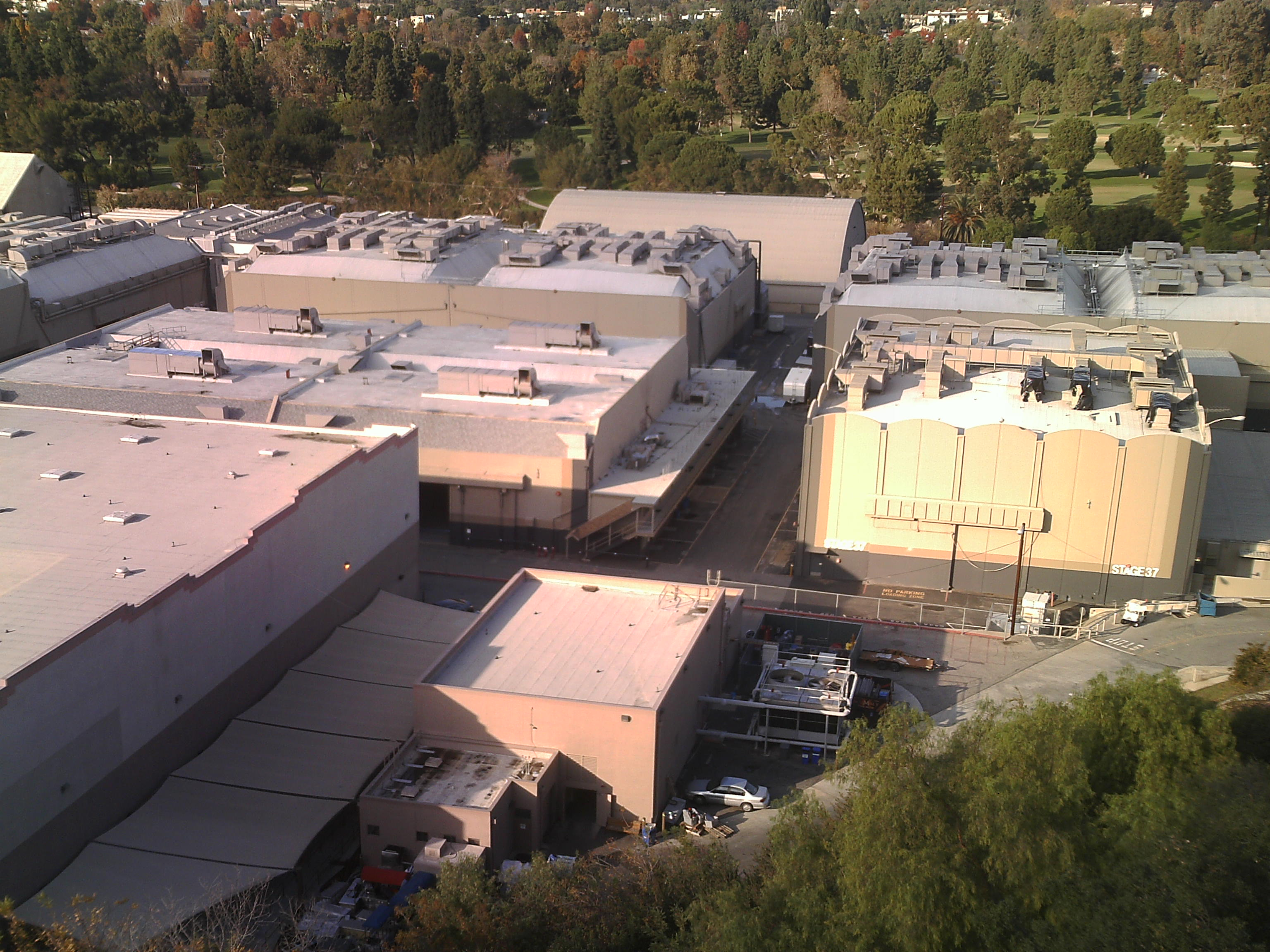 Universal Studios Hollywood